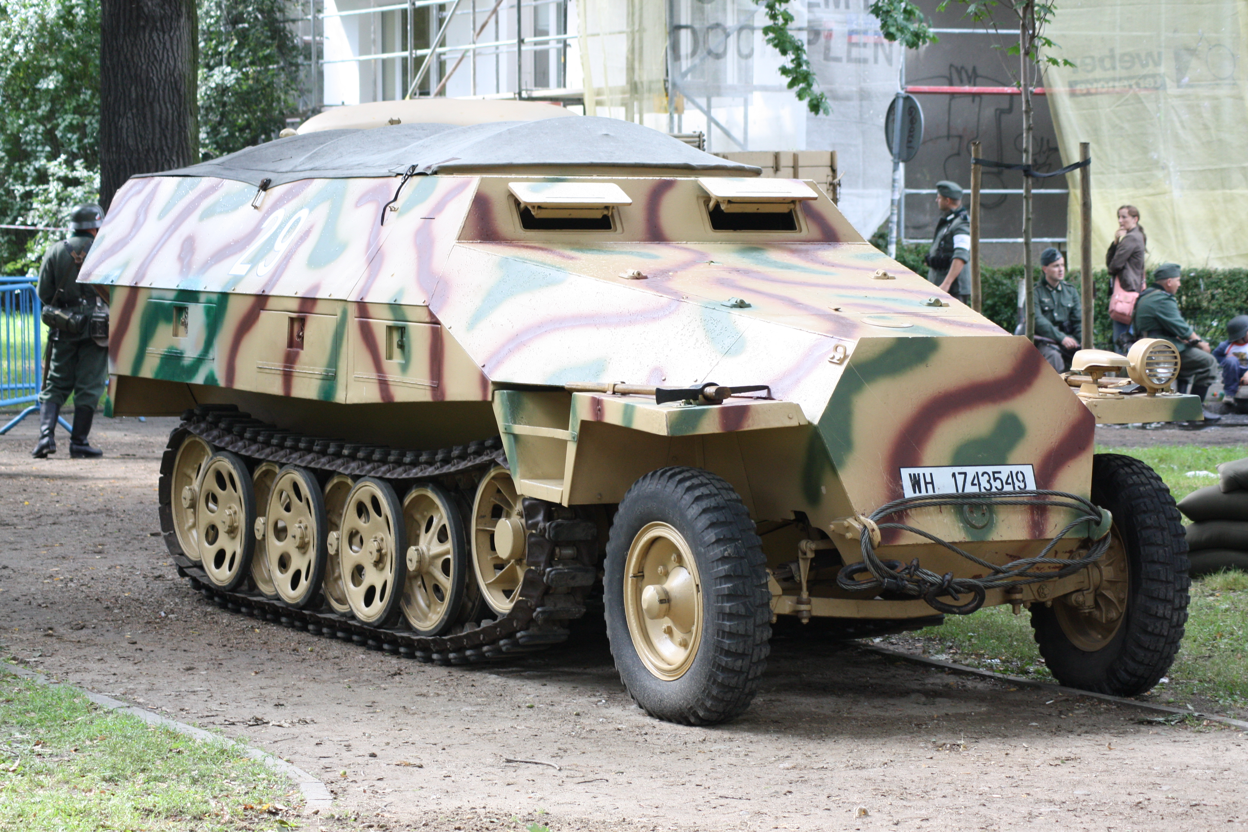 Warsaw Uprising reenactments - Mokotów'44